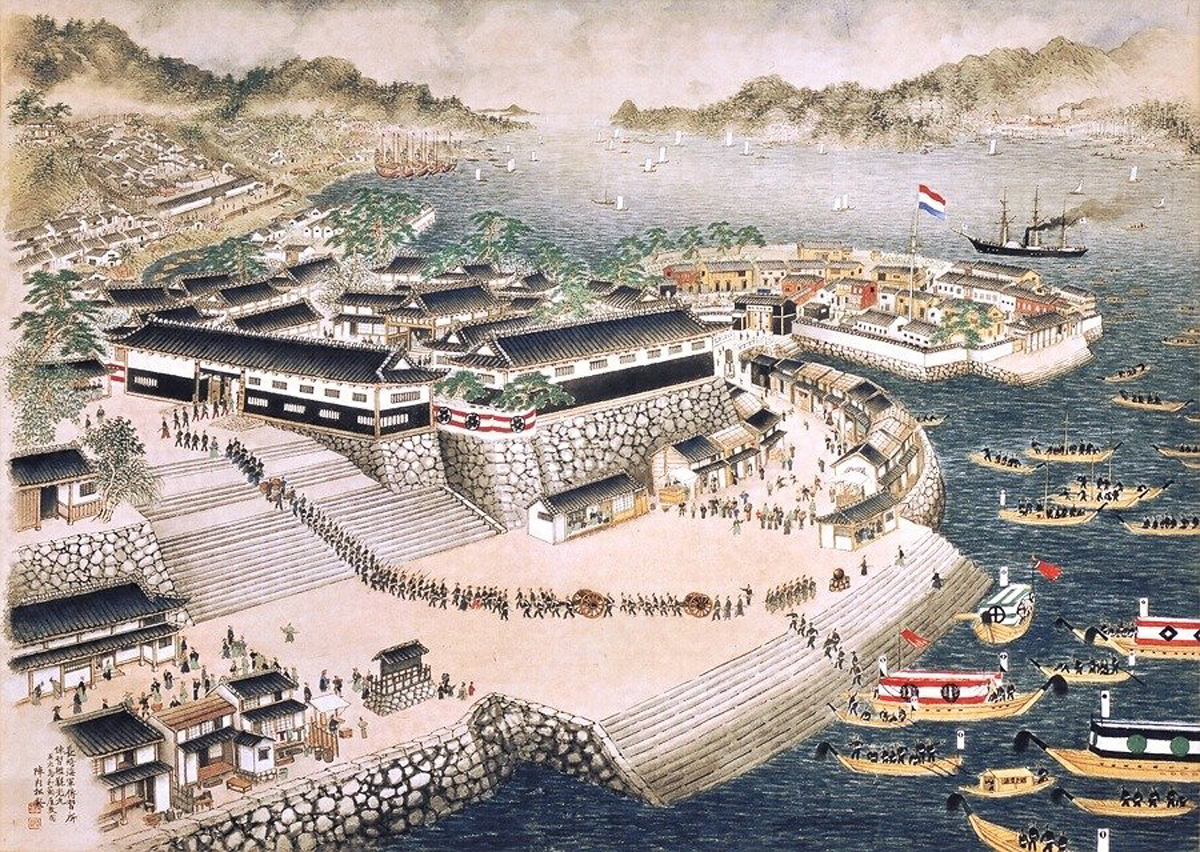 Nagasaki Naval Training Center. Painting made by Nabeshima Hofukai in 19th century. Navy officers of the Shogunate Navy were trained with Dutch soldiers as teachers.